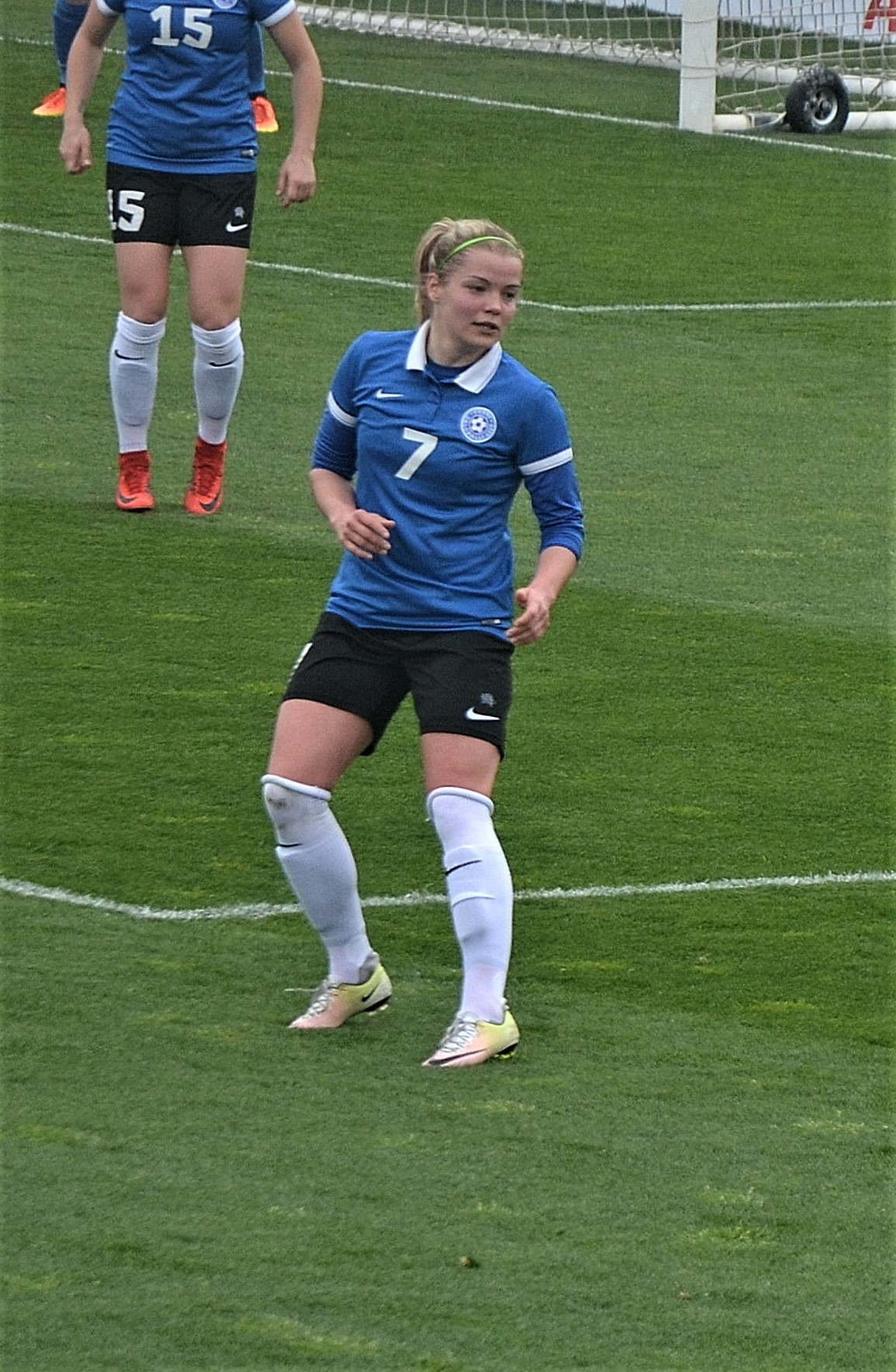 Katrin Loo playing for Estonia women's national football team in the friendly away match against Turkey at TFF Riva Facility on 7 April 2018.